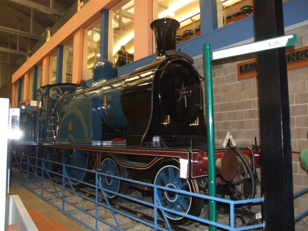 Caledonian railway no 123 at Glasgow s transport museum.